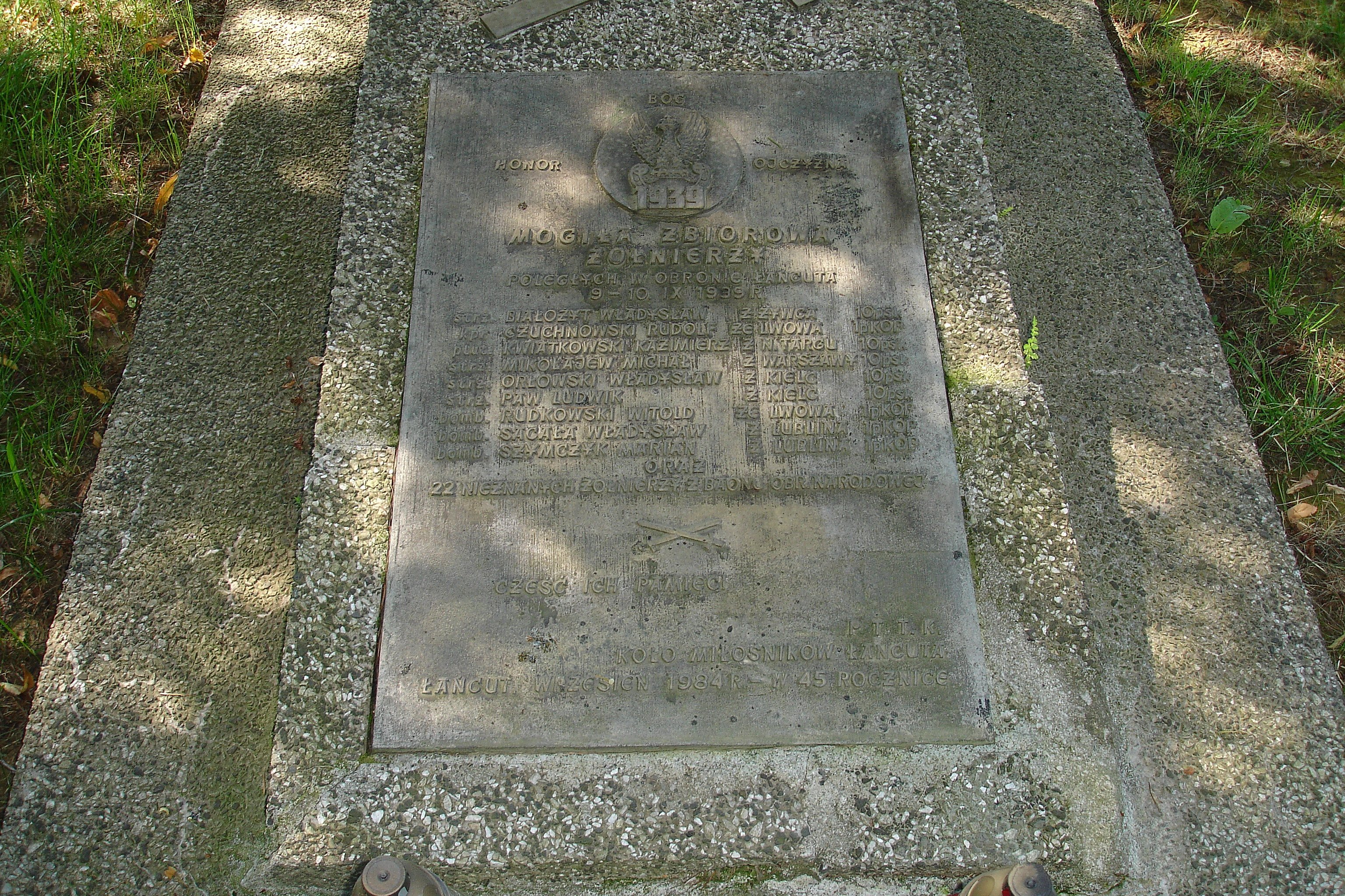 The plate commamorating soldiers of the 10th Mounted Rifle Regiment killed on september 1939 in Łańcut.